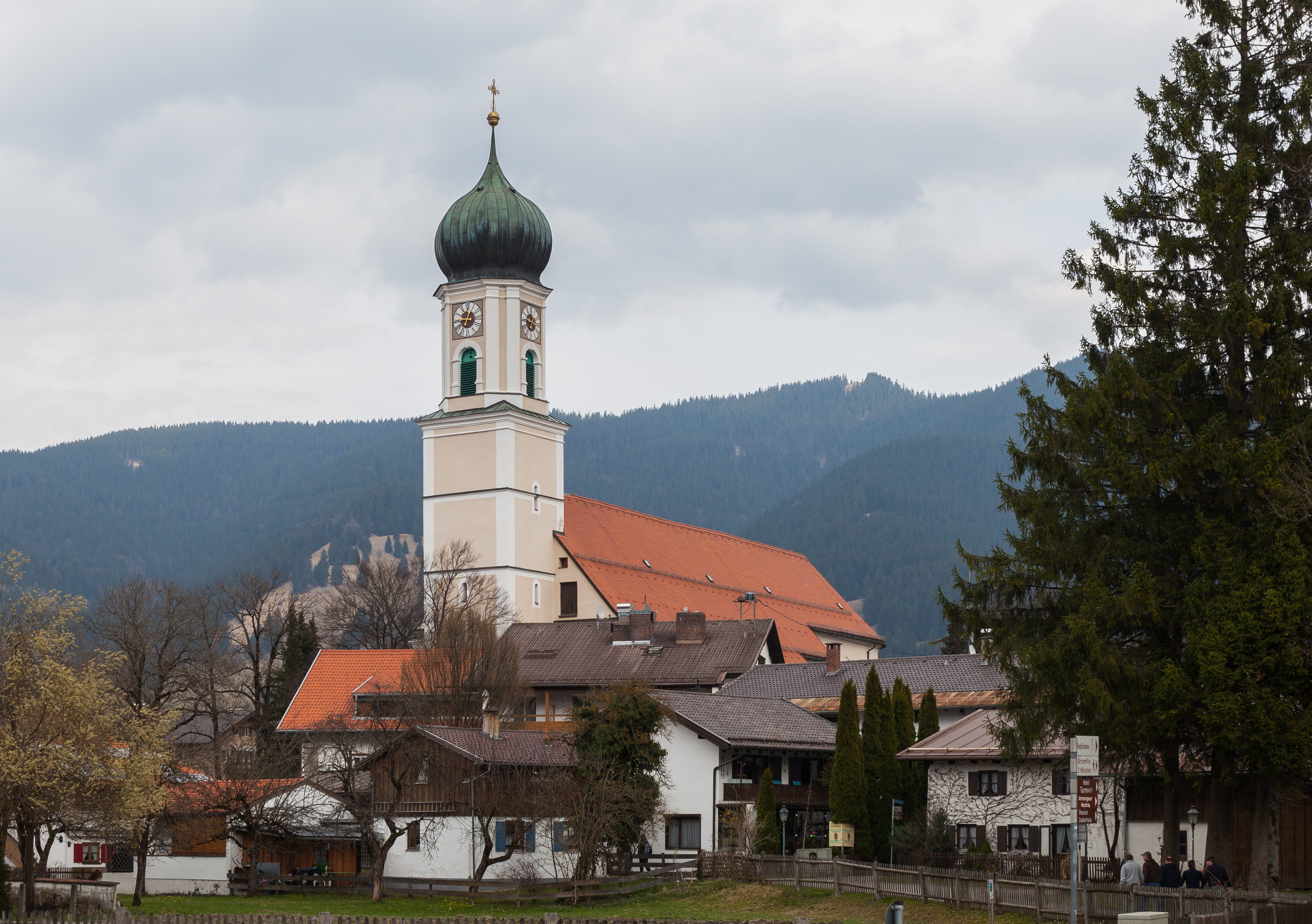 St. Peter and Paul church, Oberammergau, Bavaria, Germany